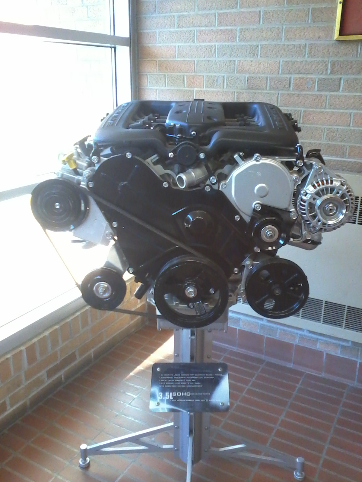 3.5 Chrysler SOHC Front